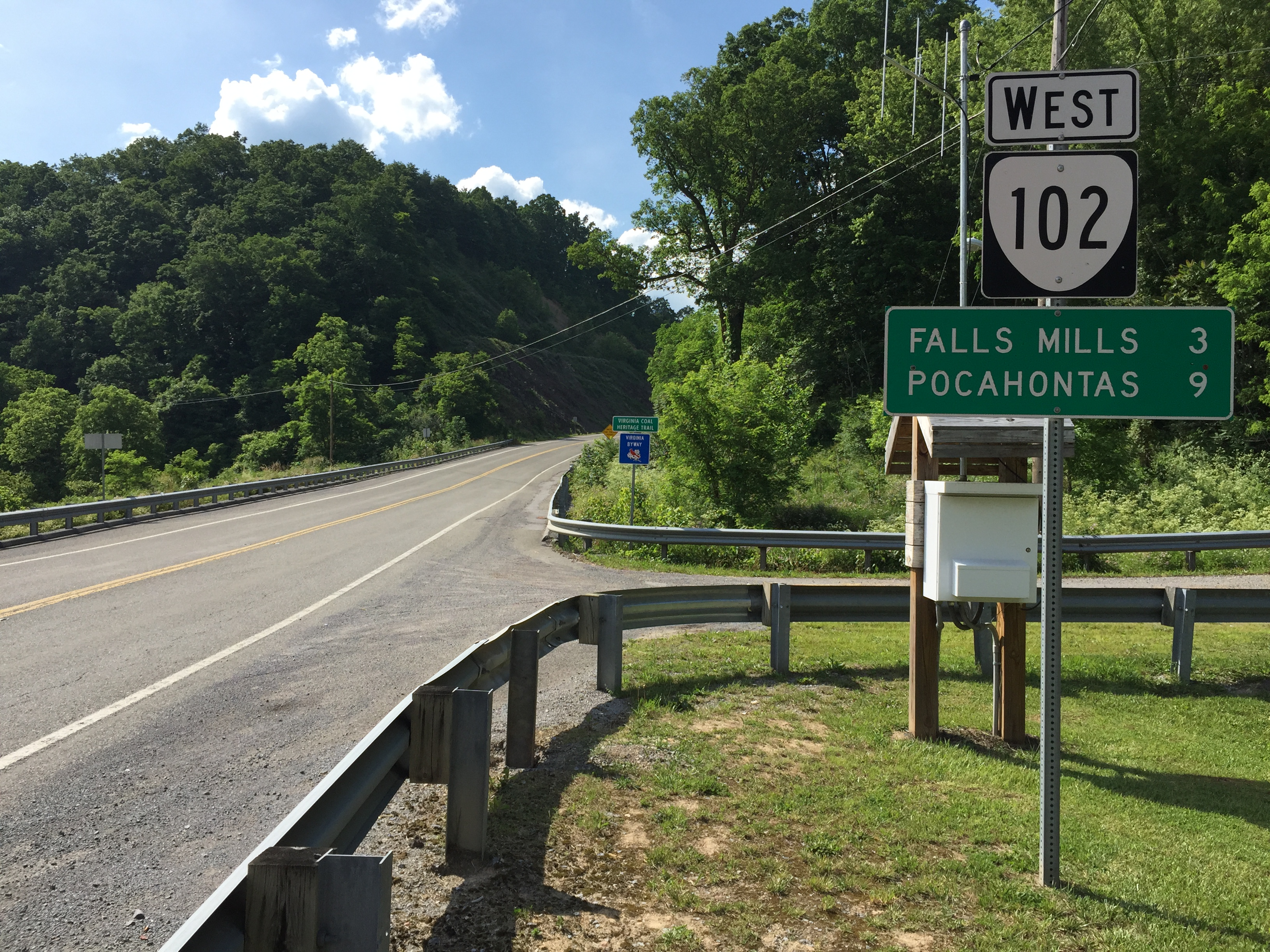 View west along Virginia State Route 102 (College Avenue) at Puritan Road just northwest of Bluefield in Tazewell County, Virginia